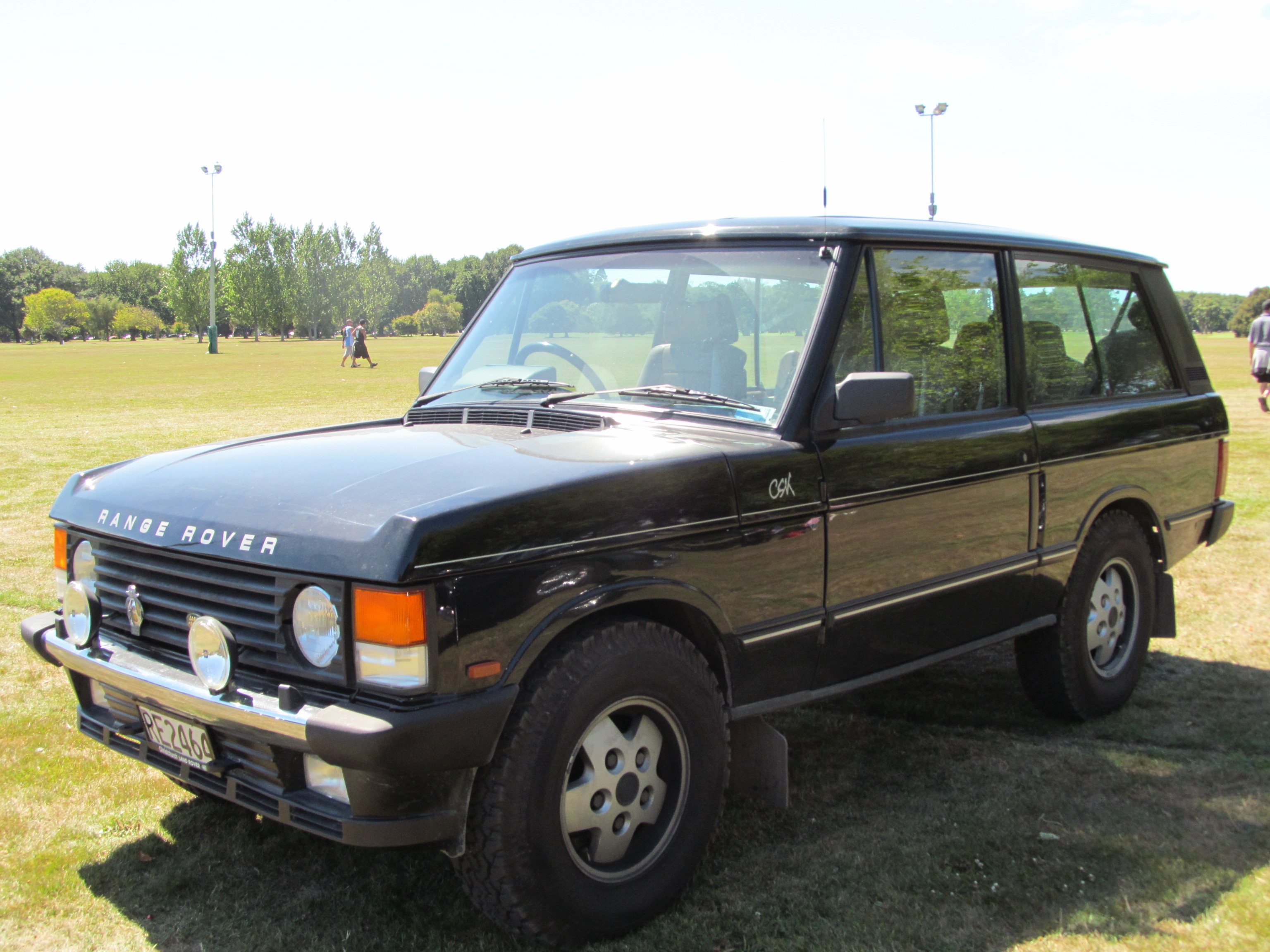 RE2464 This is an exceptionally rare vehicle, and possibly the only one in New Zealand. The CSK was a limited edition 3-door Range Rover released in 1991 to showcase the new anti-roll suspension, as well as to commemorate the 20th anniversary of the original RR. The CSK stands for Charles Spencer King, the man who designed the original Range Rover. This one has been in New Zealand since new.